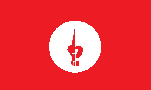 The de facto flag of the Mukti Bahini. However, it is not de jure.ː The flag was adopted by Bangladesh Muktijoddha Sangsad; a non-political welfare association of the combatants during the War of Liberation.